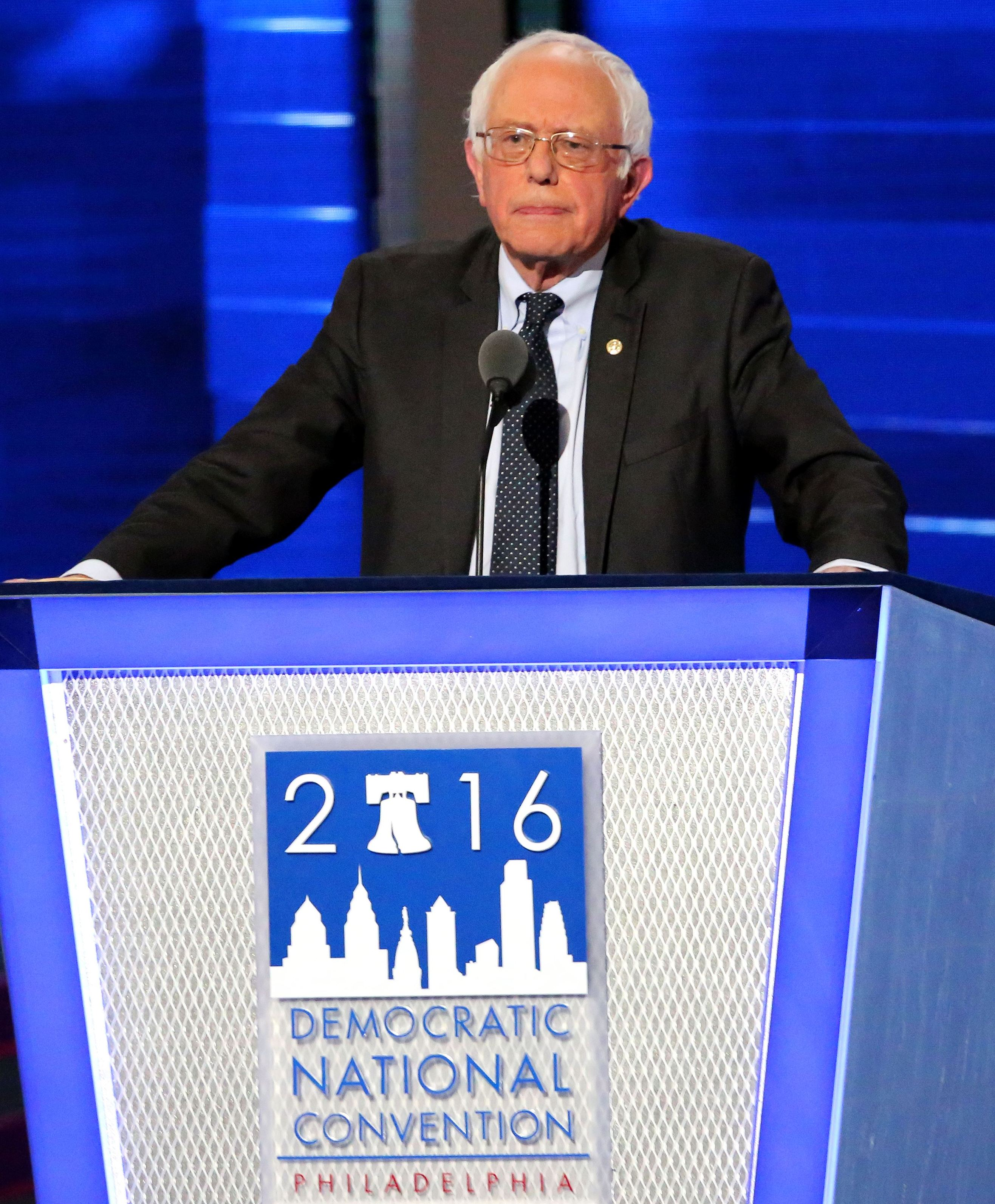 Bernie Sanders thanked his supporters for starting a political movement at the Democratic National Convention in Philadelphia, July 25, 2016.